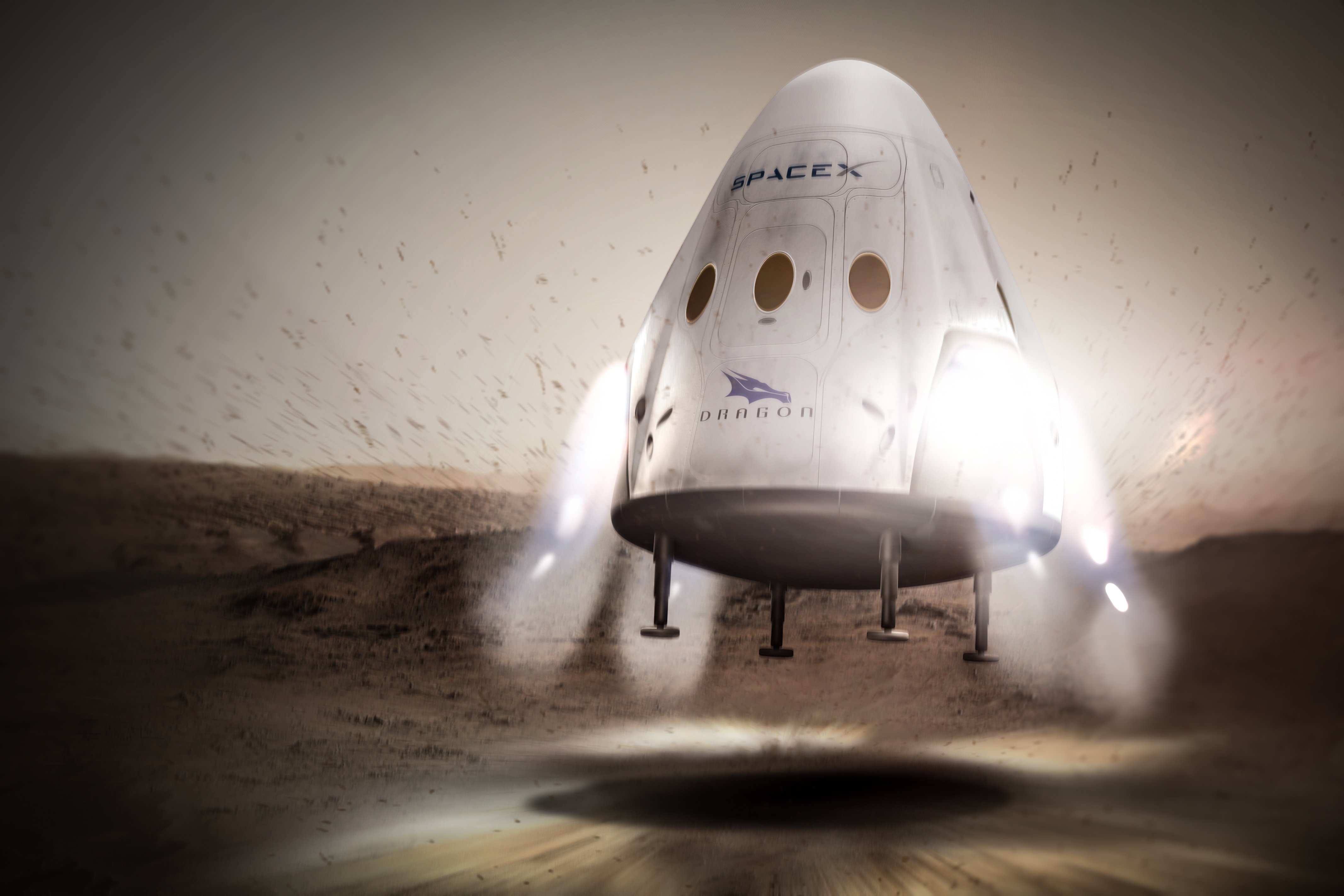 Concept art of sending Dragon to Mars.